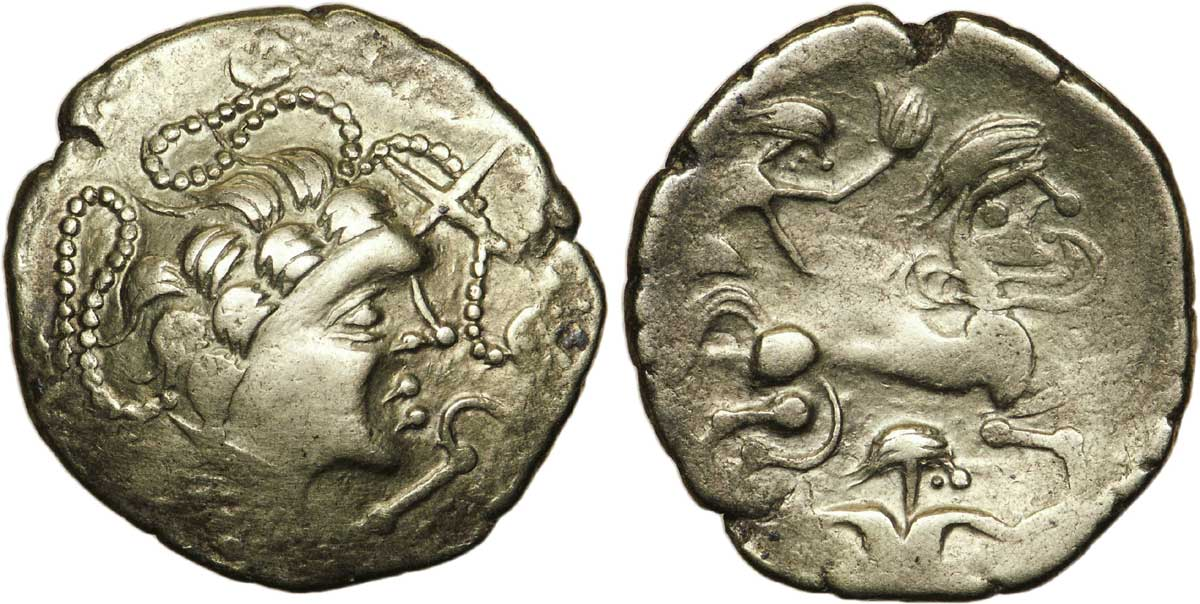 Statère d'électrum à l'hippophore et à la croix frappé par les Namnètes Date : c.80-50 AC.